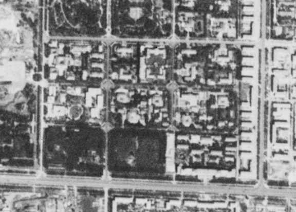 Embassy District, Beijing. Spatial tentatively corrected. 中文（中国大陆）: 使馆区。空间上尝试性矫正过。